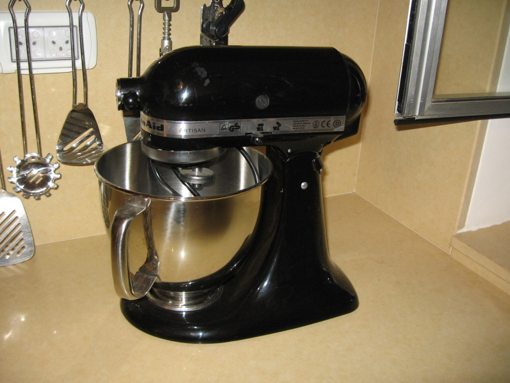 mixer